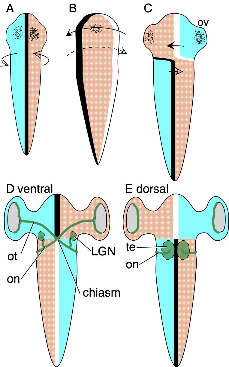 Developmental schema of the axial twist hypothesis published by de Lussanet and Osse (2012)